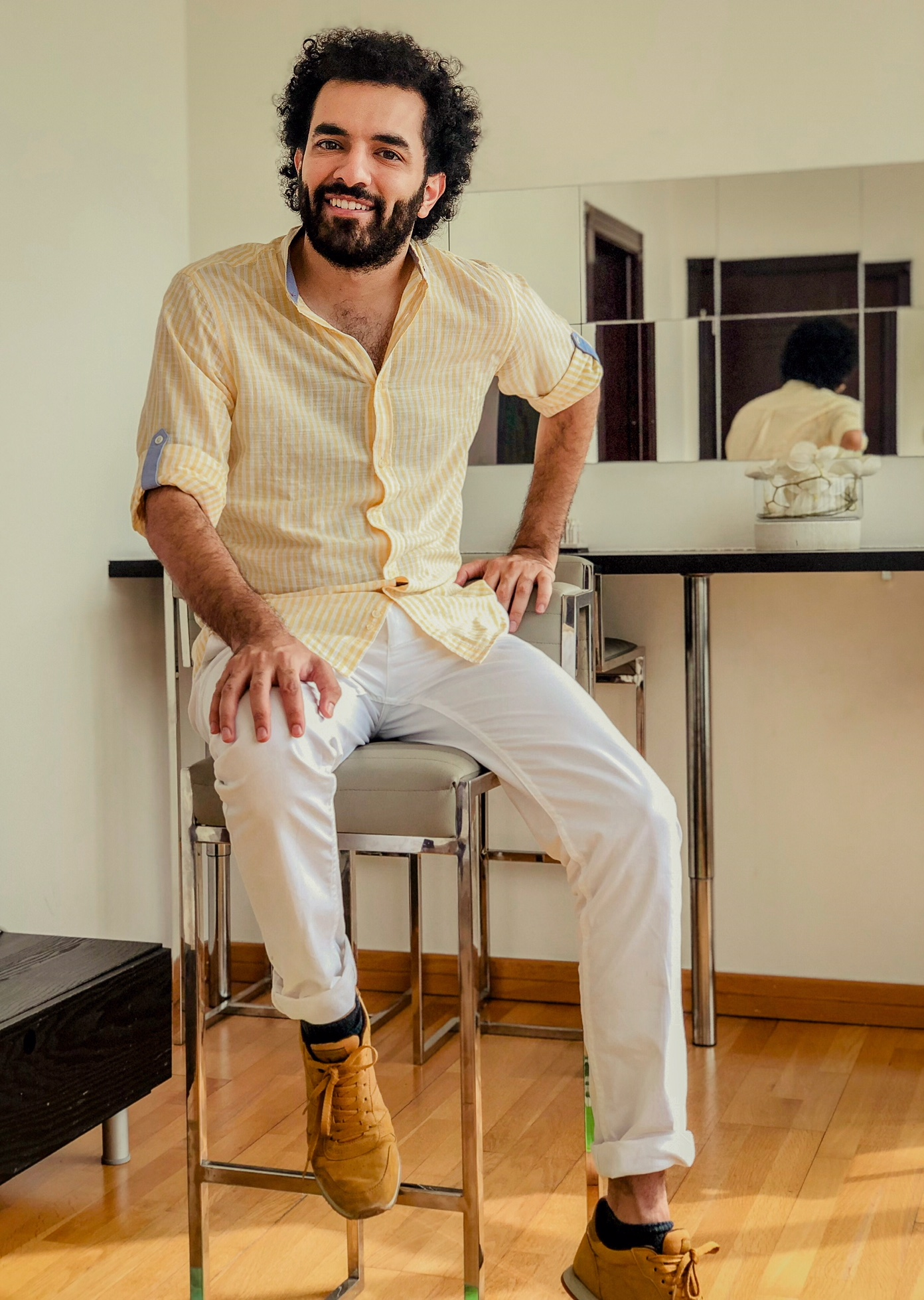 picture of director producer and author Ahmad Alyaseer